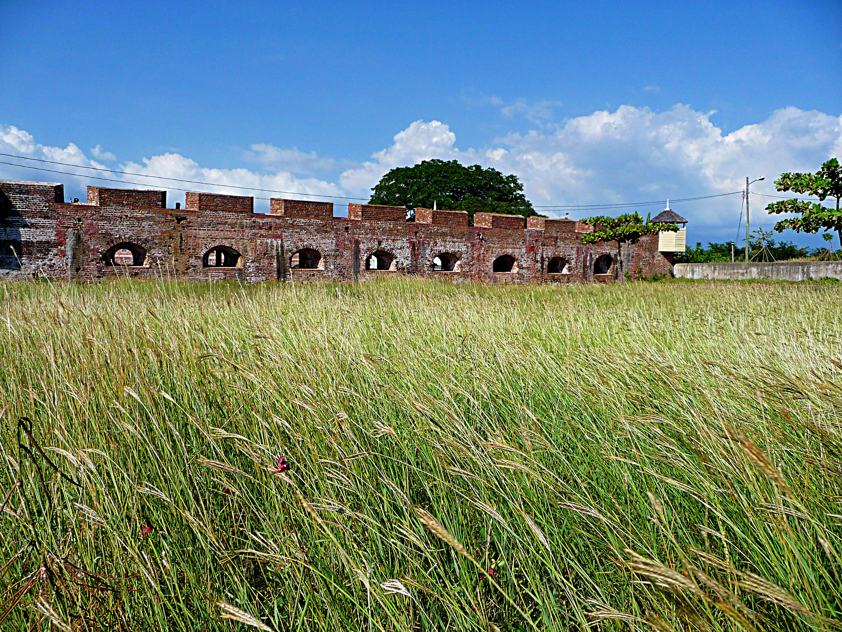 Fort Charles at Port Royal is a treasure trove for lovers of history and a photographers paradise in close proximity to the metropolitan city of Kingston.